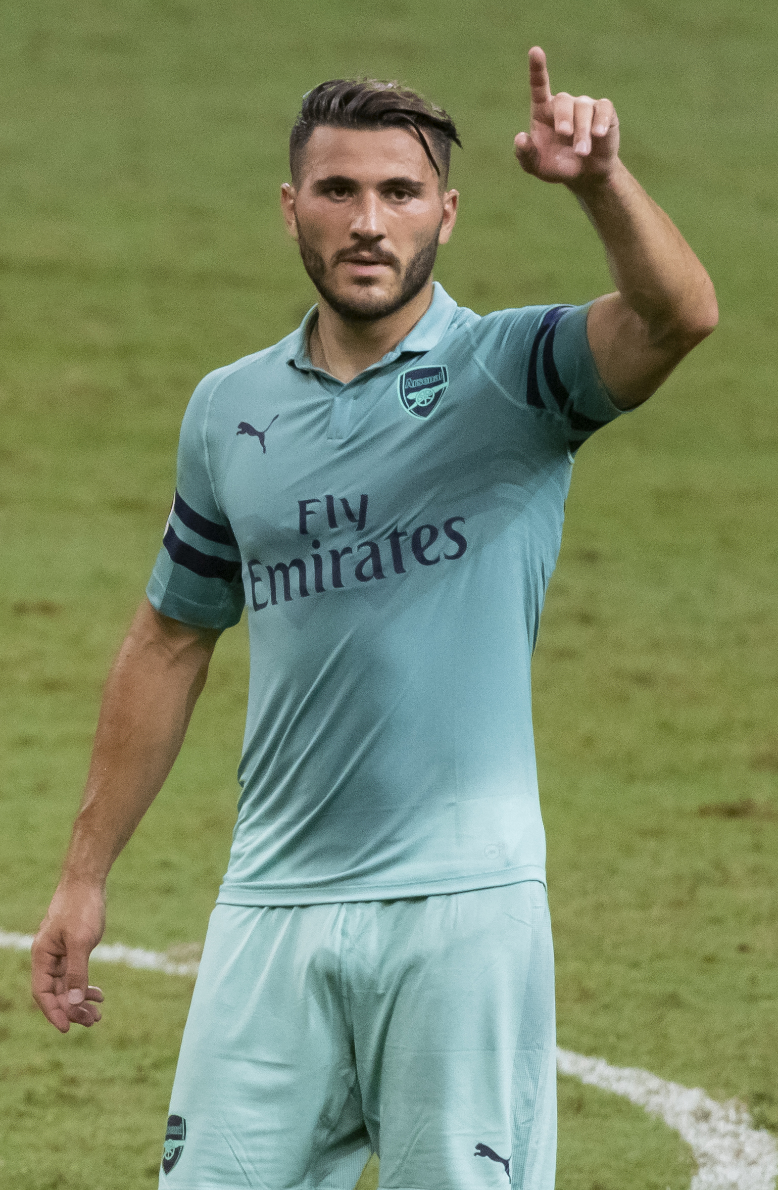 Sead Kolašinac Arsenal v PSG International Champions Cup 2018 Singapore National Stadium